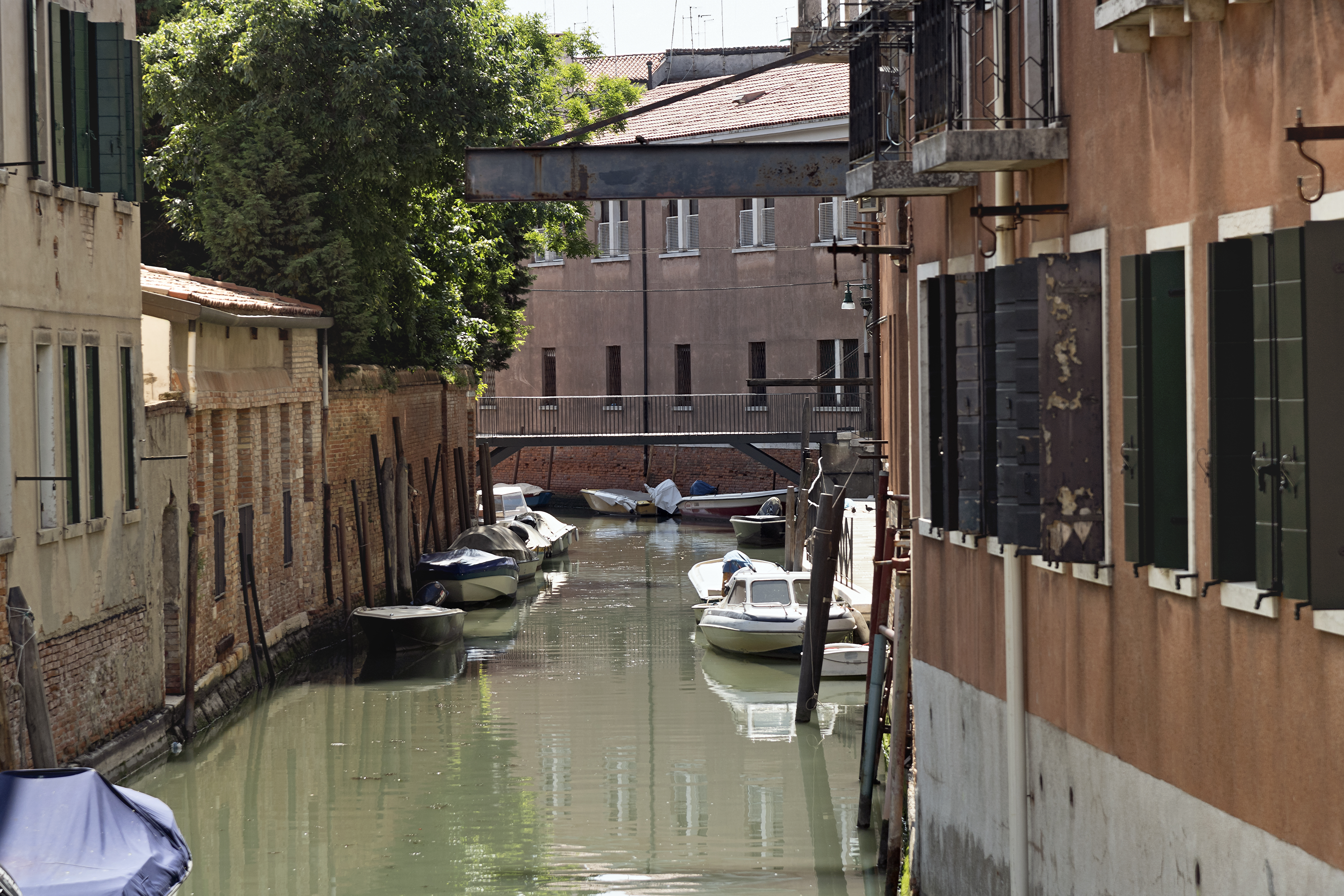 ponte de le chioverete on rio del Battello - Venice